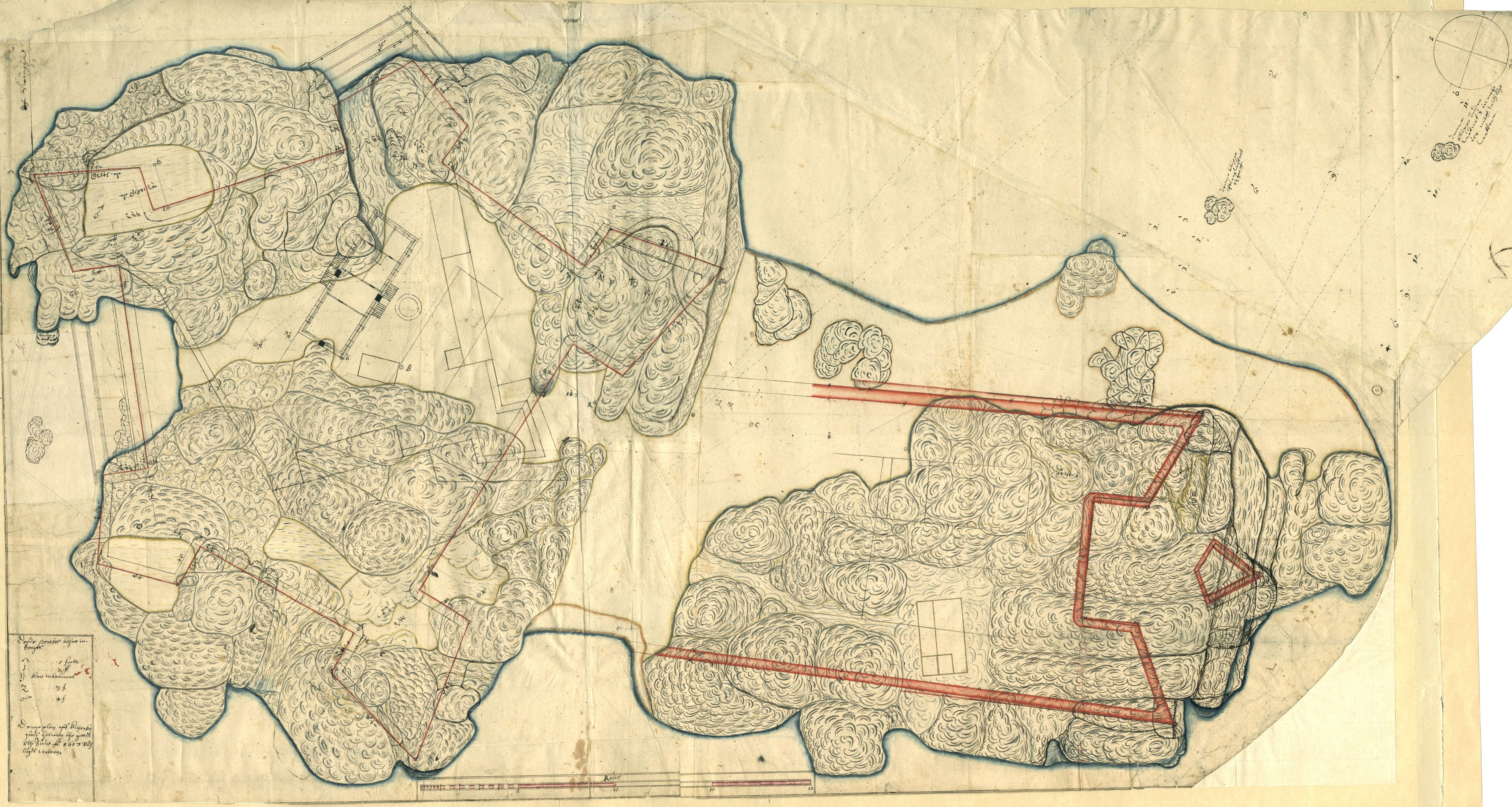 Suggestion for future defensive buildings, later known as fortress Nya Älvsborg, at Kyrkogårdsholmen. The defensive works was part of the outer defences of the city Gothenburg, in Sweden, Measuring was made in july 1653 at low water level.